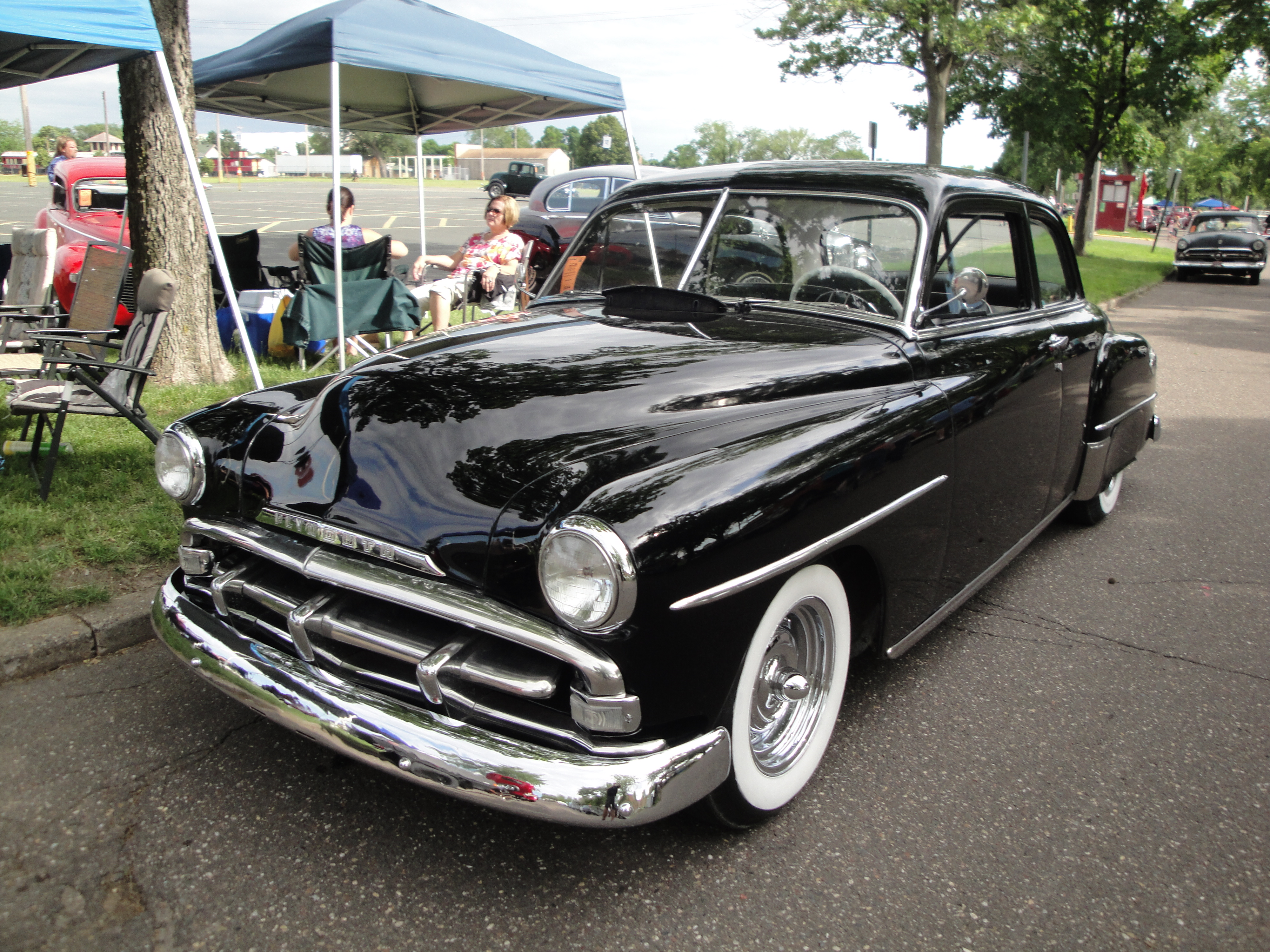 Minnesota Street Rod Association 39th Annual "Back to the Fifties" June 2012 Minnesota State Fairgrounds St. Paul MN